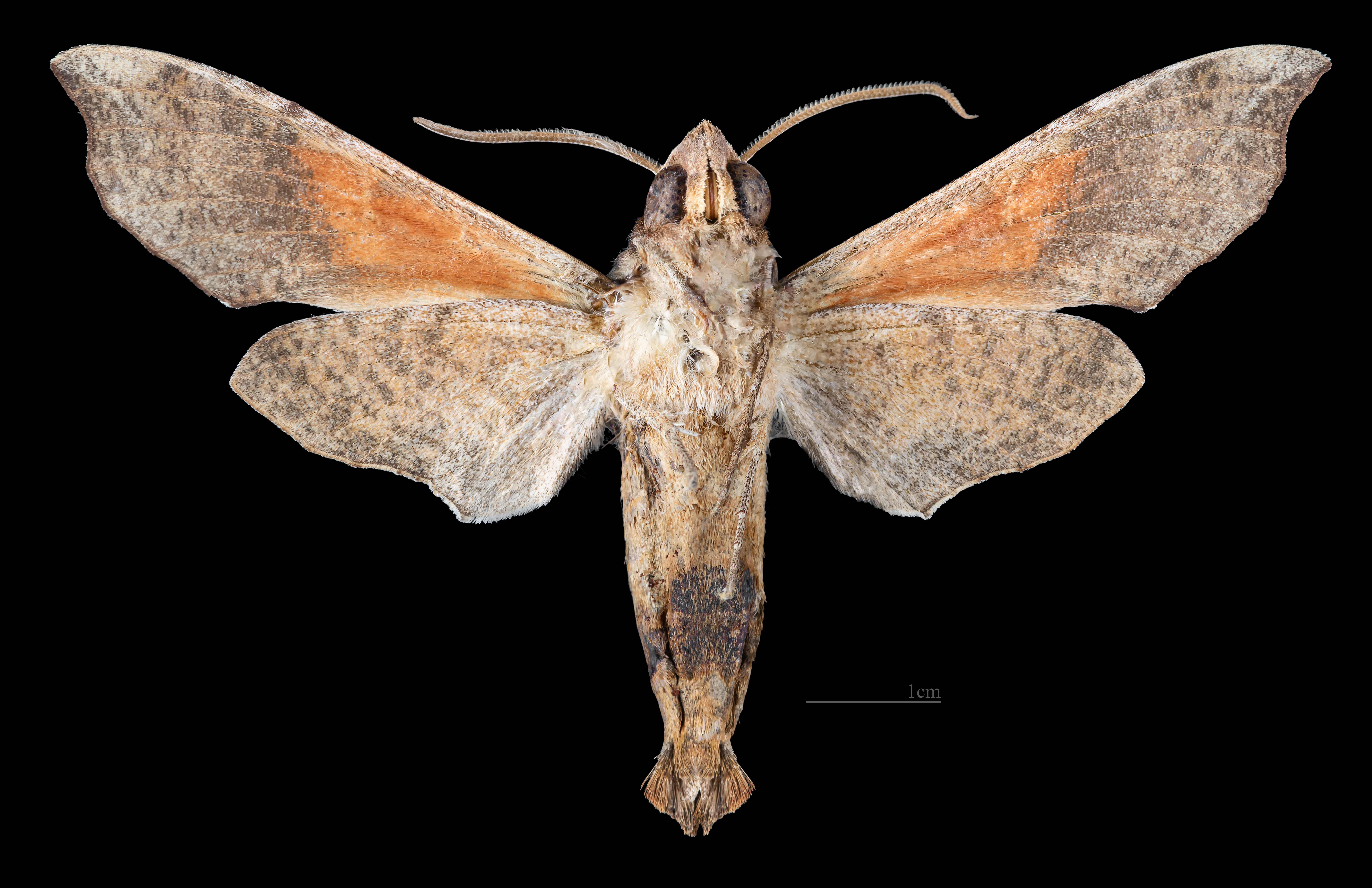 Callionima grisescens - △ Ventral side Collection of the Mathematician Laurent Schwartz